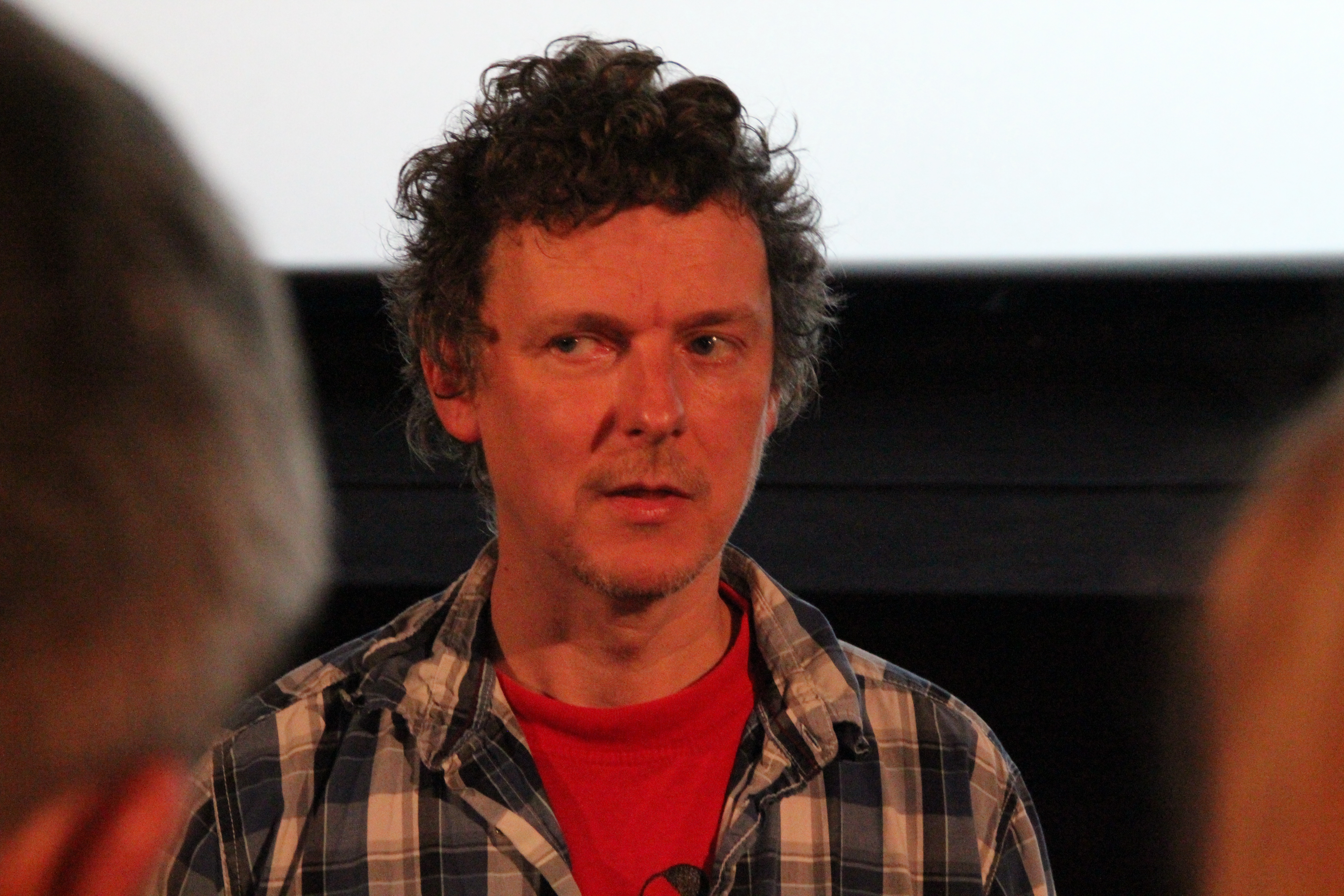 Master class with Michel Gondry in the Gaumont Parnasse movie theater in Paris.